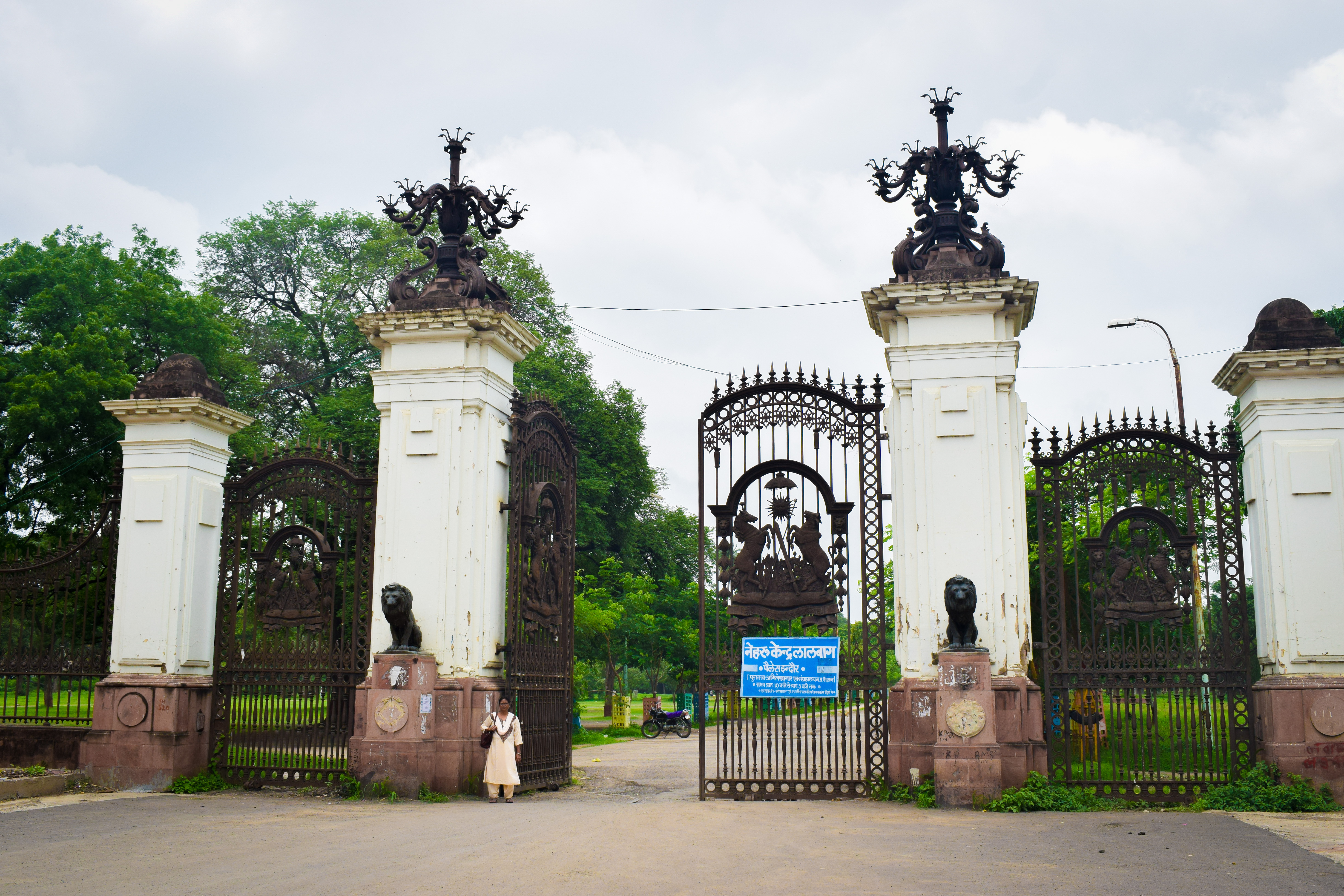 The majestic gate of Laal Bagh Palace, Indore